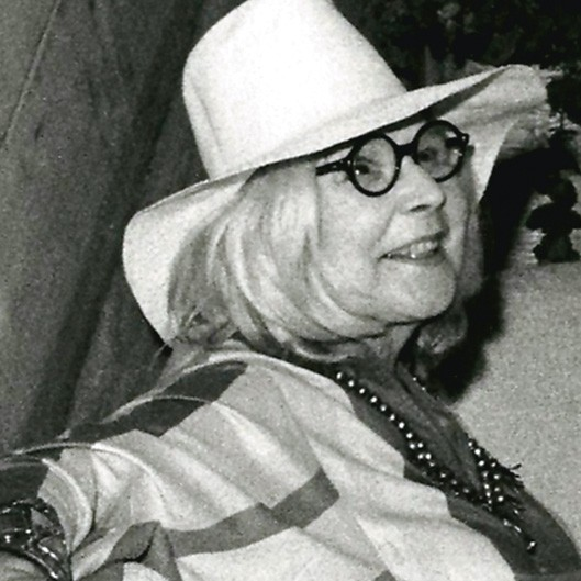 Photo of Margaret Webb Dreyer, circa 1945